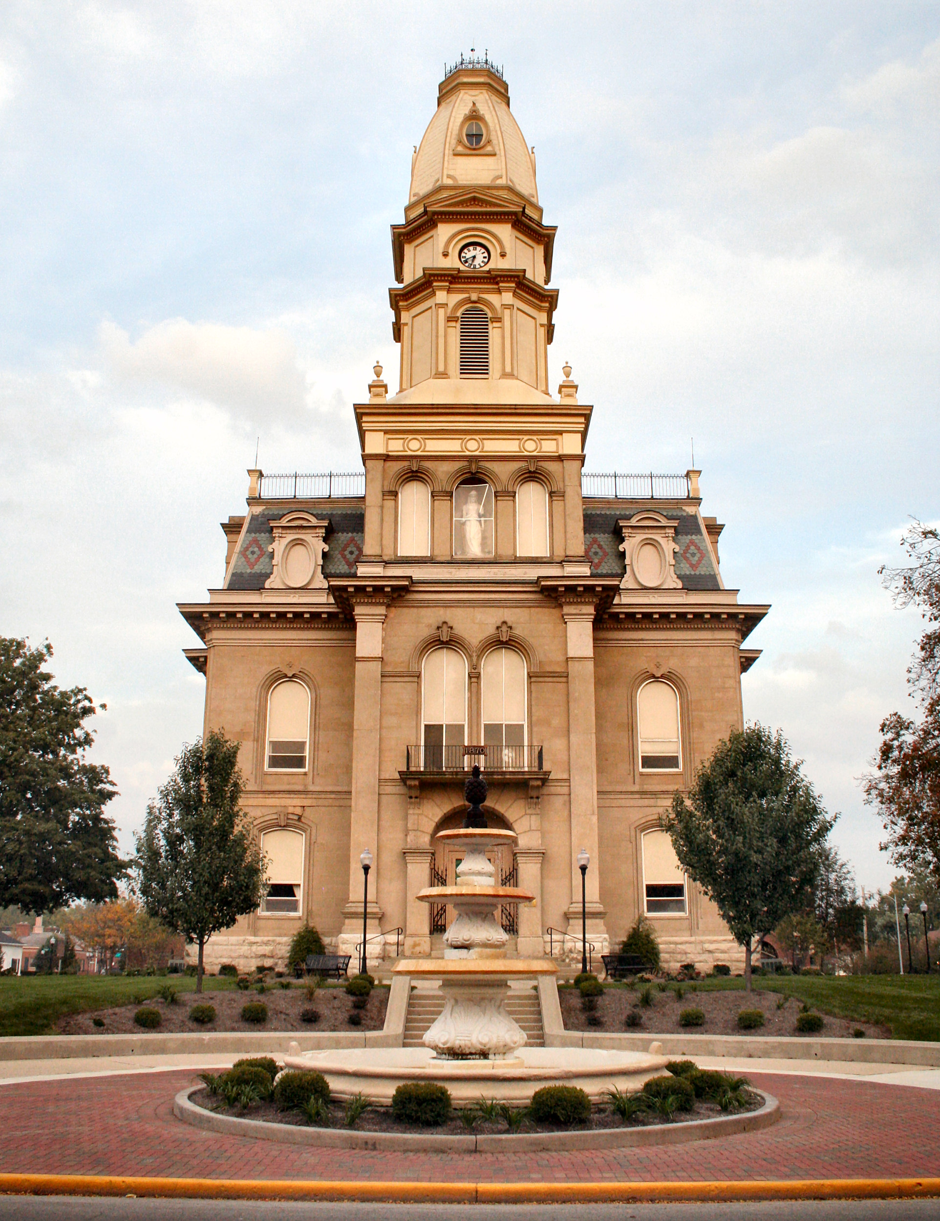 Logan County courthouse in Bellefontaine, Ohio, located along U.S. Route 68.